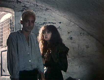 Psyche visits Narcissus in Pest